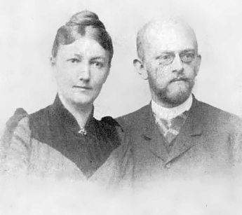 David Hilbert and Käthe Jerosch